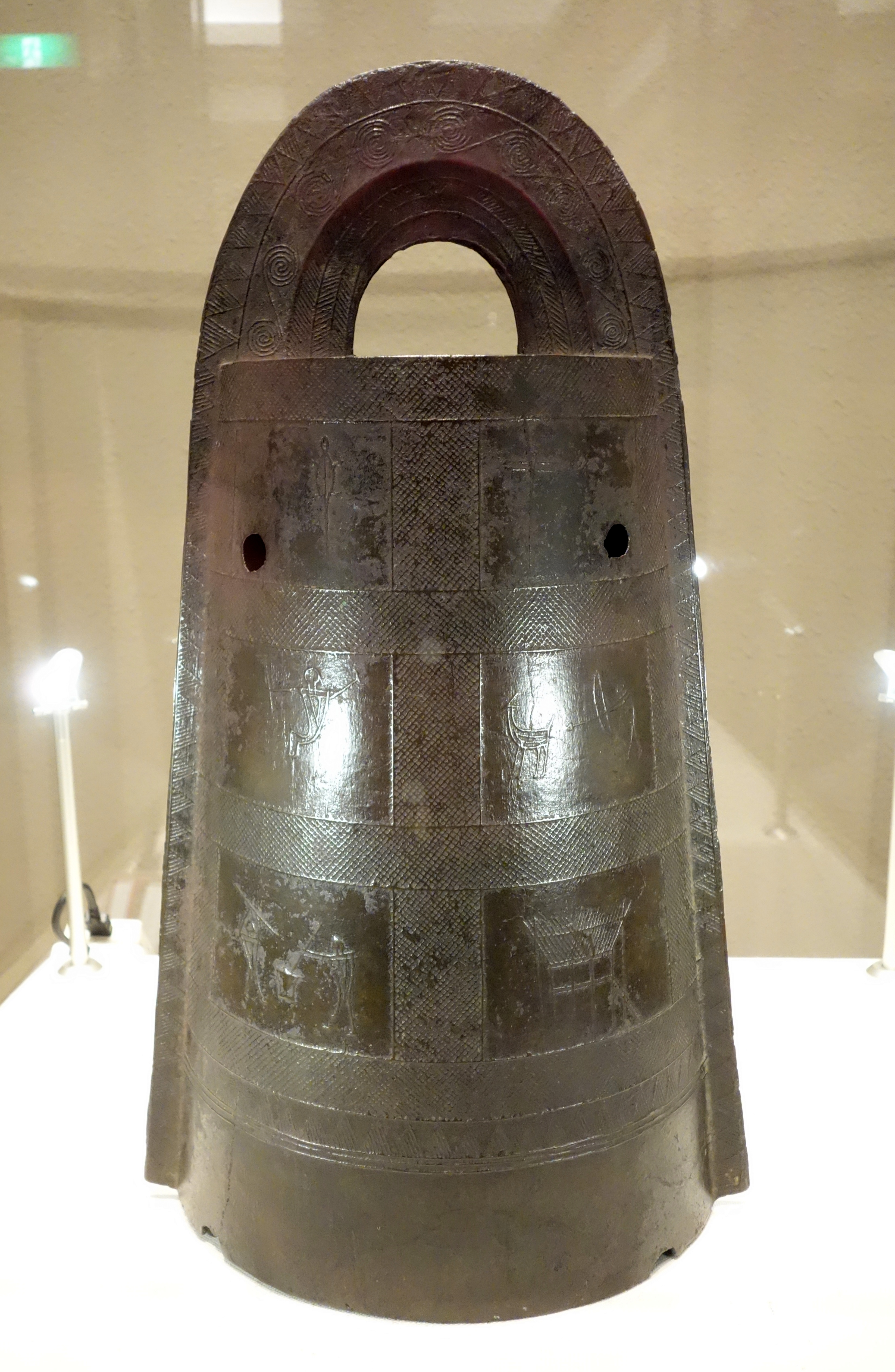 Exhibit in the Tokyo National Museum, Tokyo, Japan. This artwork is old enough so that it is in the public domain.